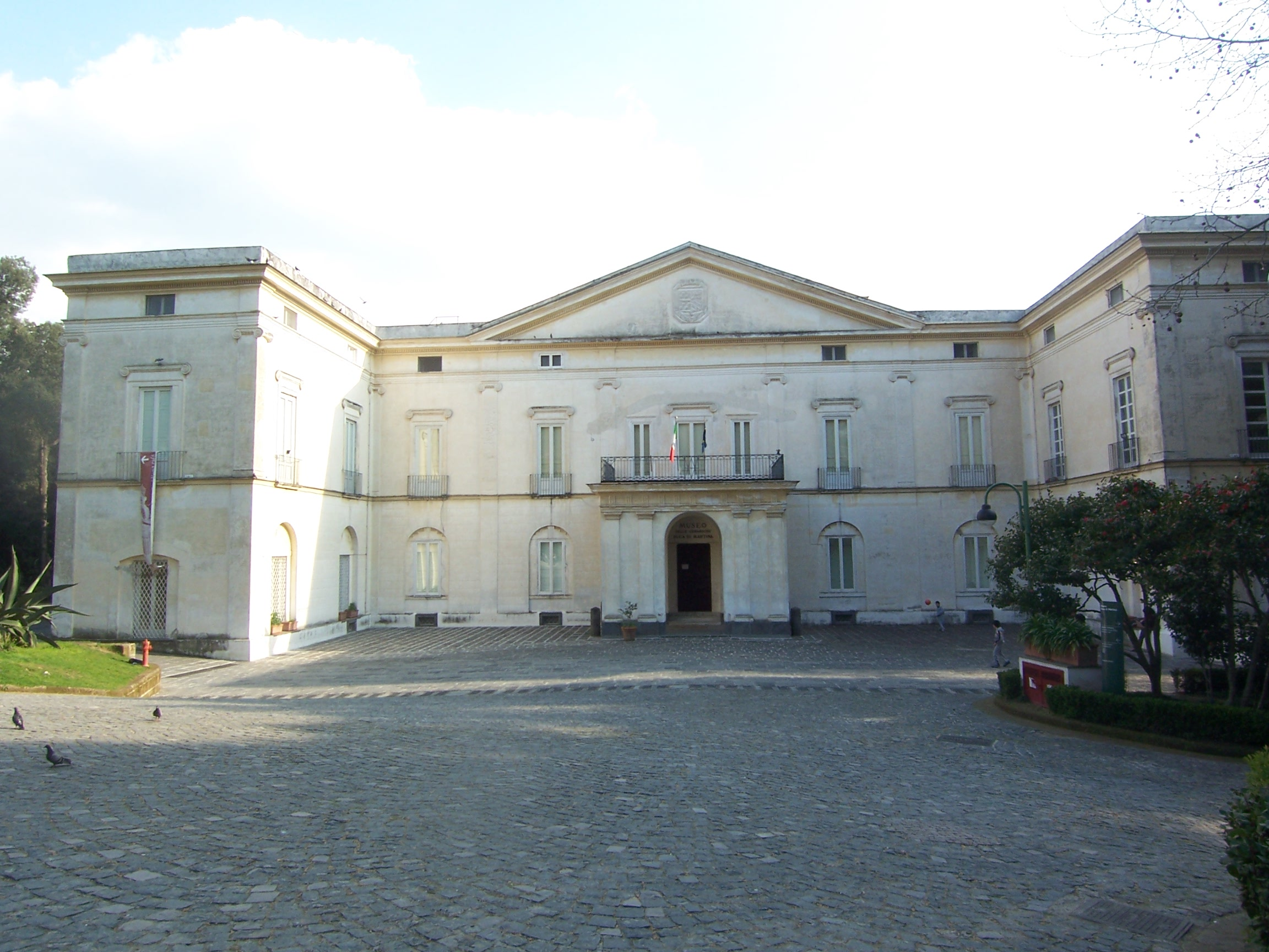 Villa Floridiana, Naples - Front